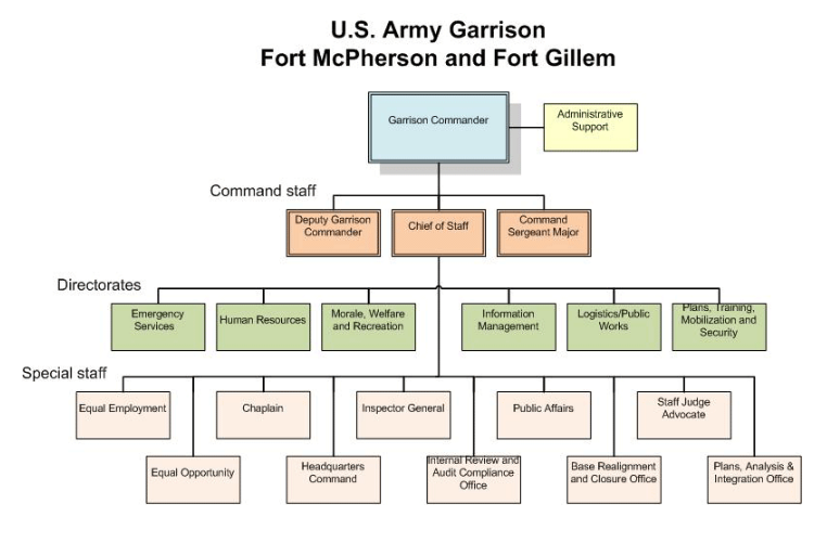 Fort McPherson Org Chart